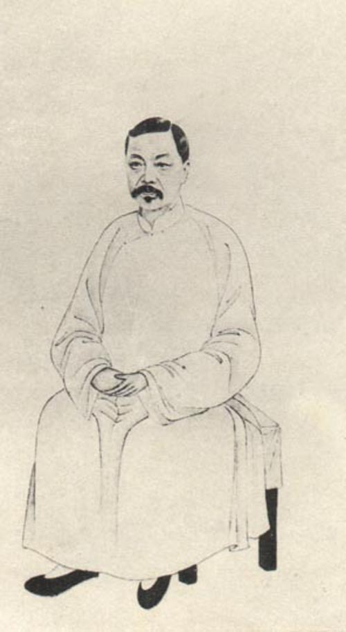 TU Ji, politician and scholar of the late Qing Dynasty.